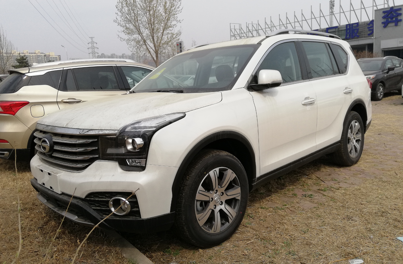 GAC Trumpchi GS7 photographed in Beijing, China.